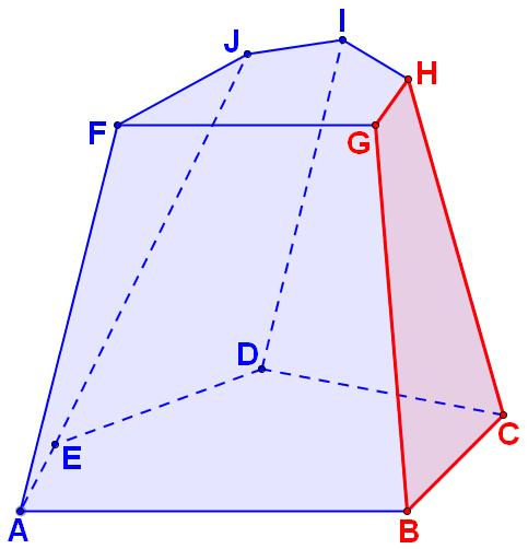 Polyhedron with highlighted face